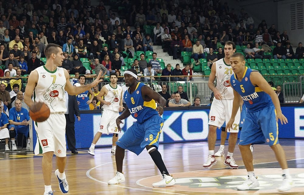 KK Union Olimpija vs Maccabi Tel Aviv in Hala Tivoli, Euroleague 2009/10